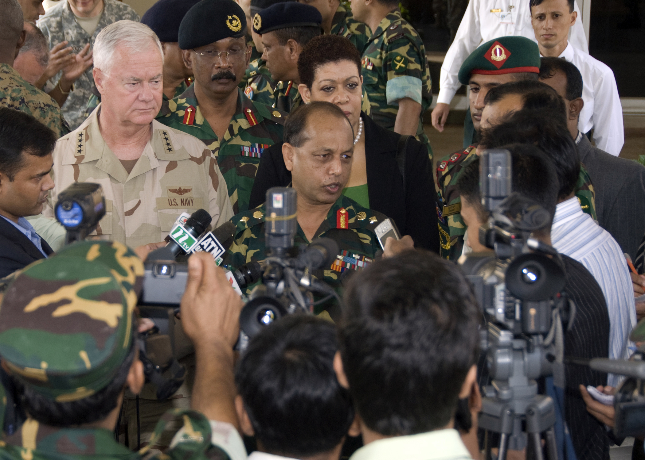 DHAKA, Bangladesh (Nov. 23, 2007) Adm. Timothy J. Keating, commander of U.S. Pacific Command, and Gen. Moeen U Ahmed, Chief of Army Staff of the Bangladesh Army, attend a press conference after meeting at Army Headquarters. Keating stopped in Dhaka on his way home from Central Command to observe the recovery effort and speak with key leaders about any additional assets needed. U.S. Navy photo by Mass Communication Specialist 2nd Class Elisia V. Gonzales (Released)